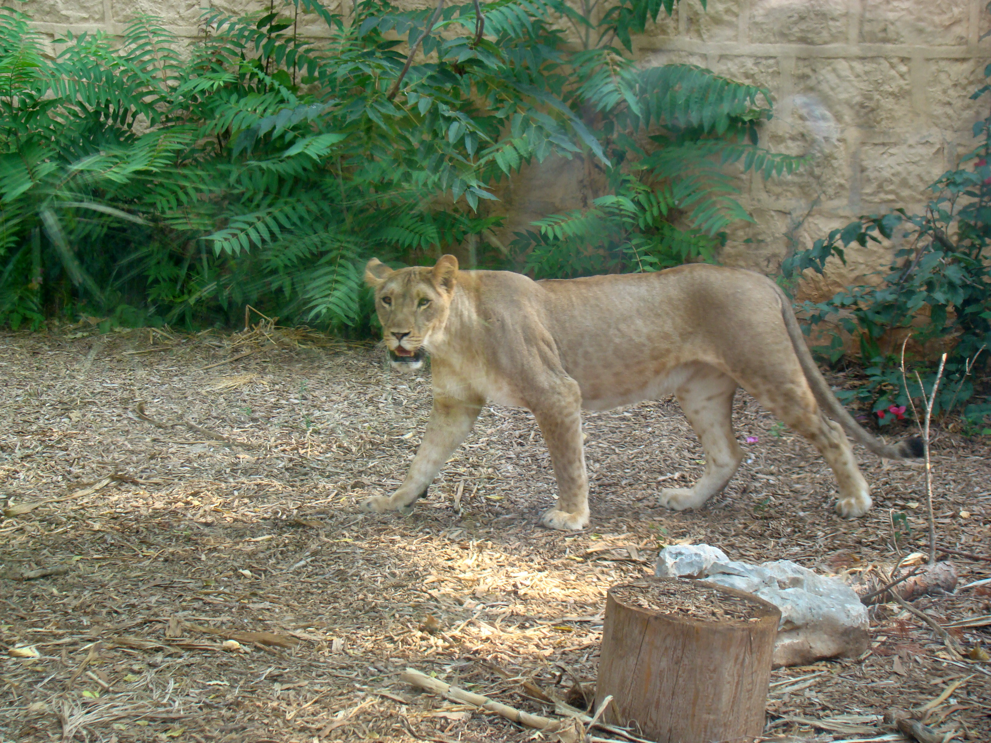 Lioness of Saint-Jean Cap-Ferrat Zoo. The three lions of this zoo are survivors of illegal animal trade. Bottle-feeding by La Barben Zoo, they are transfered at Saint-Jean Cap-Ferrat Zoo.